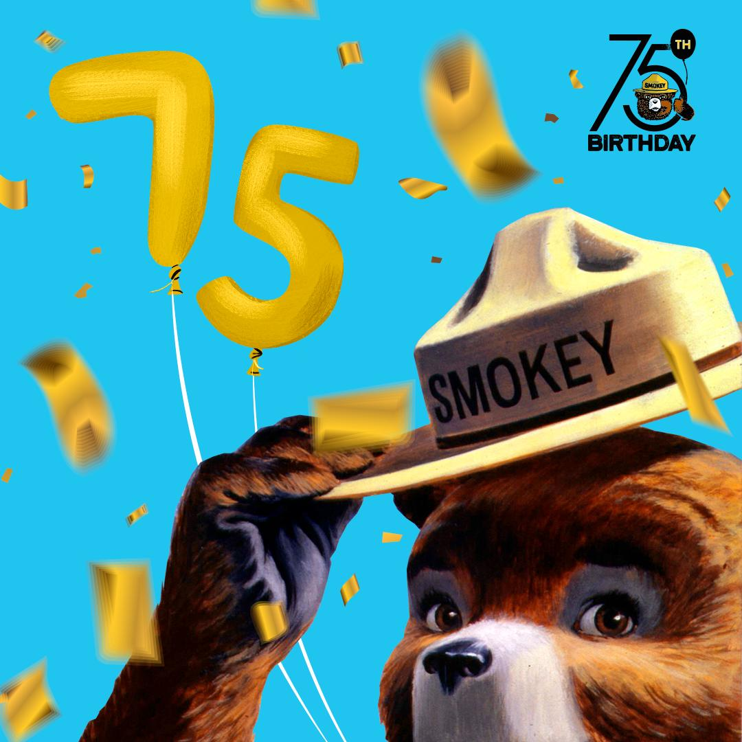 Tweet Text: OnlyYou can help prevent #wildfires… The Forest Service celebrates @smokey_bear 75th Birthday @EAA AirVenture in Oshkosh, Wisconsin #OSH19 #SmokeyBear75 #IFPatOSH Visit the International Federal Pavilion – Hangar D #IFPatOSH